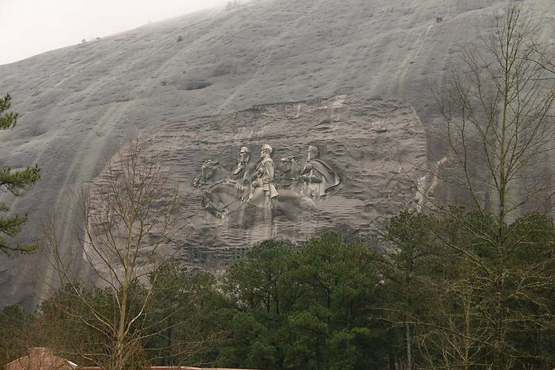 Close up of the carving on Stone Mountain, granite dome located in Georgia, USA. Carving displays figures of Stonewall Jackson, Robert E. Lee and Jefferson Davis.